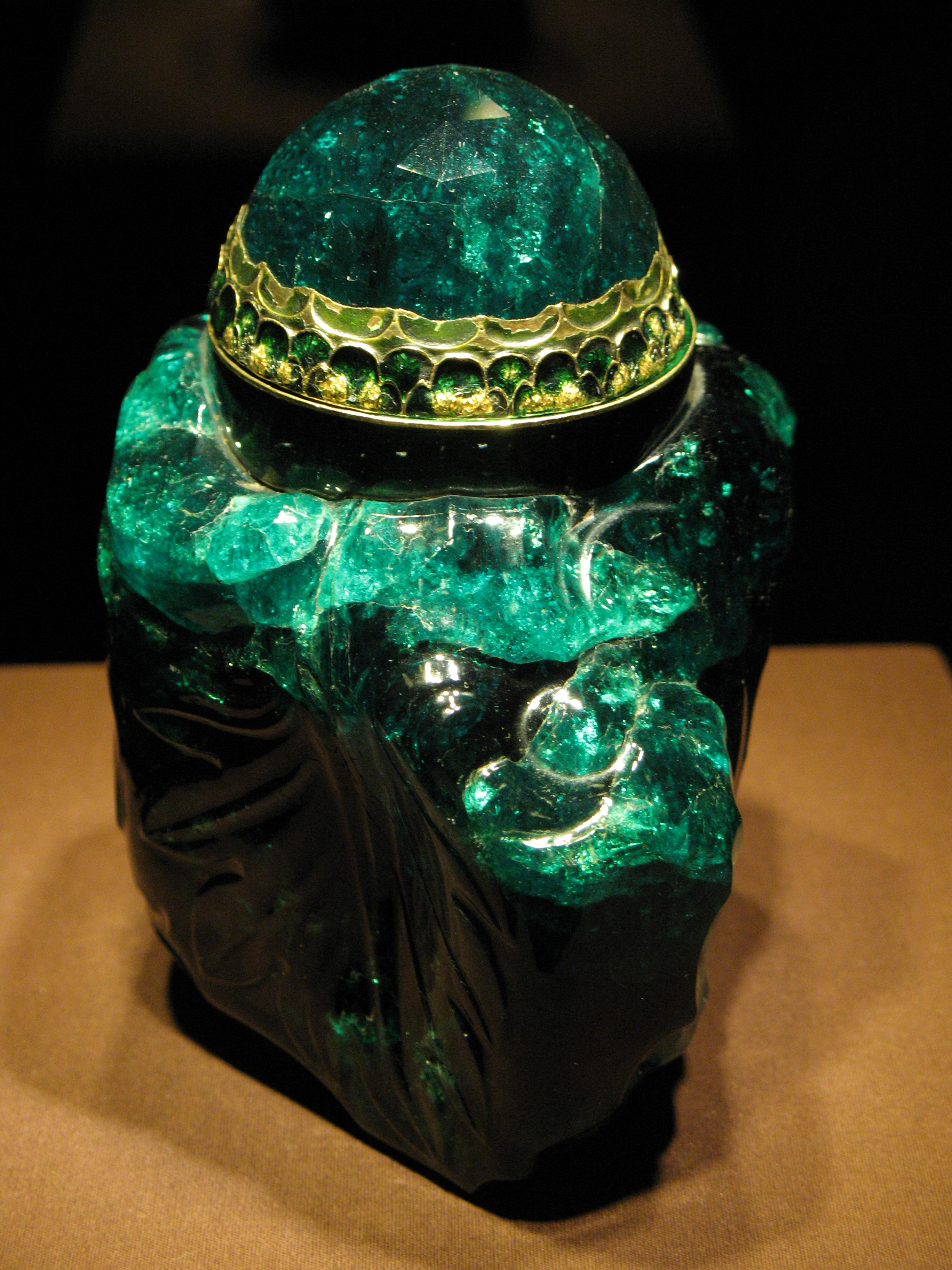 2860-carat Emerald, Imperial Treasury, Vienna, Austria